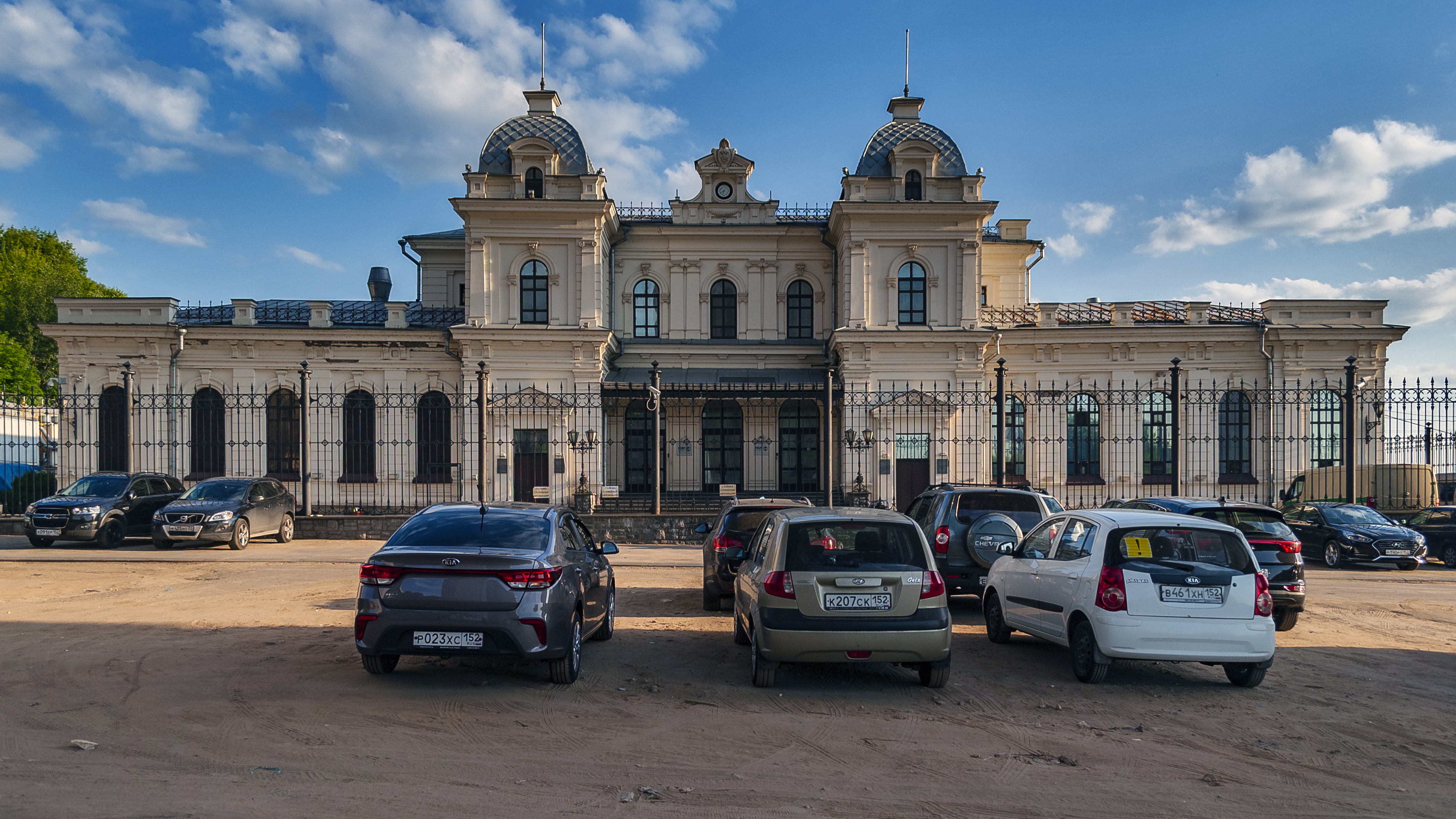 Novakard company office - manufacturer of transport cards of Nizhny Novgorod. In the past - Romodanovsky (Kazansky) railway station.